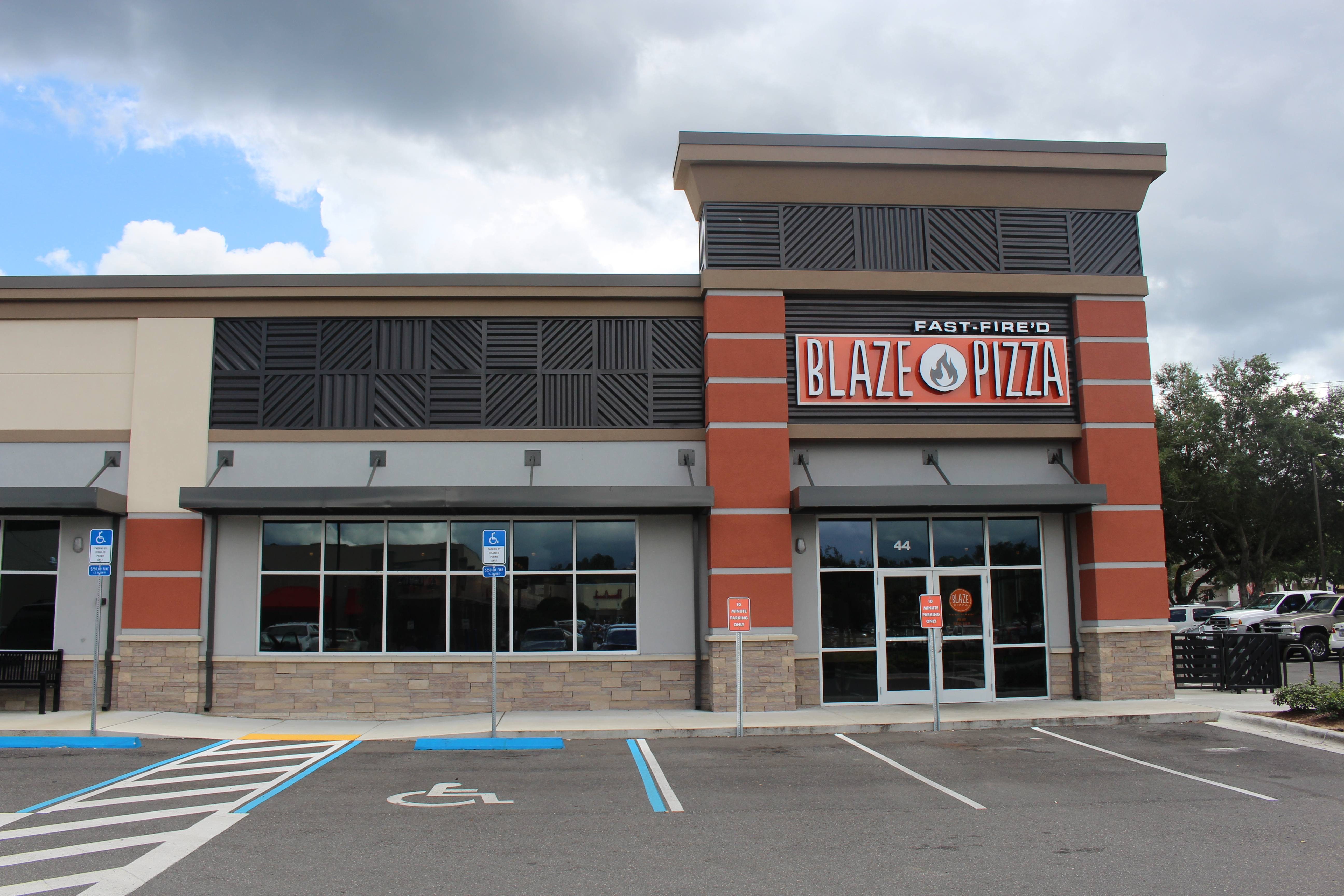 Village Commons, Tallahassee, Leon County, Florida